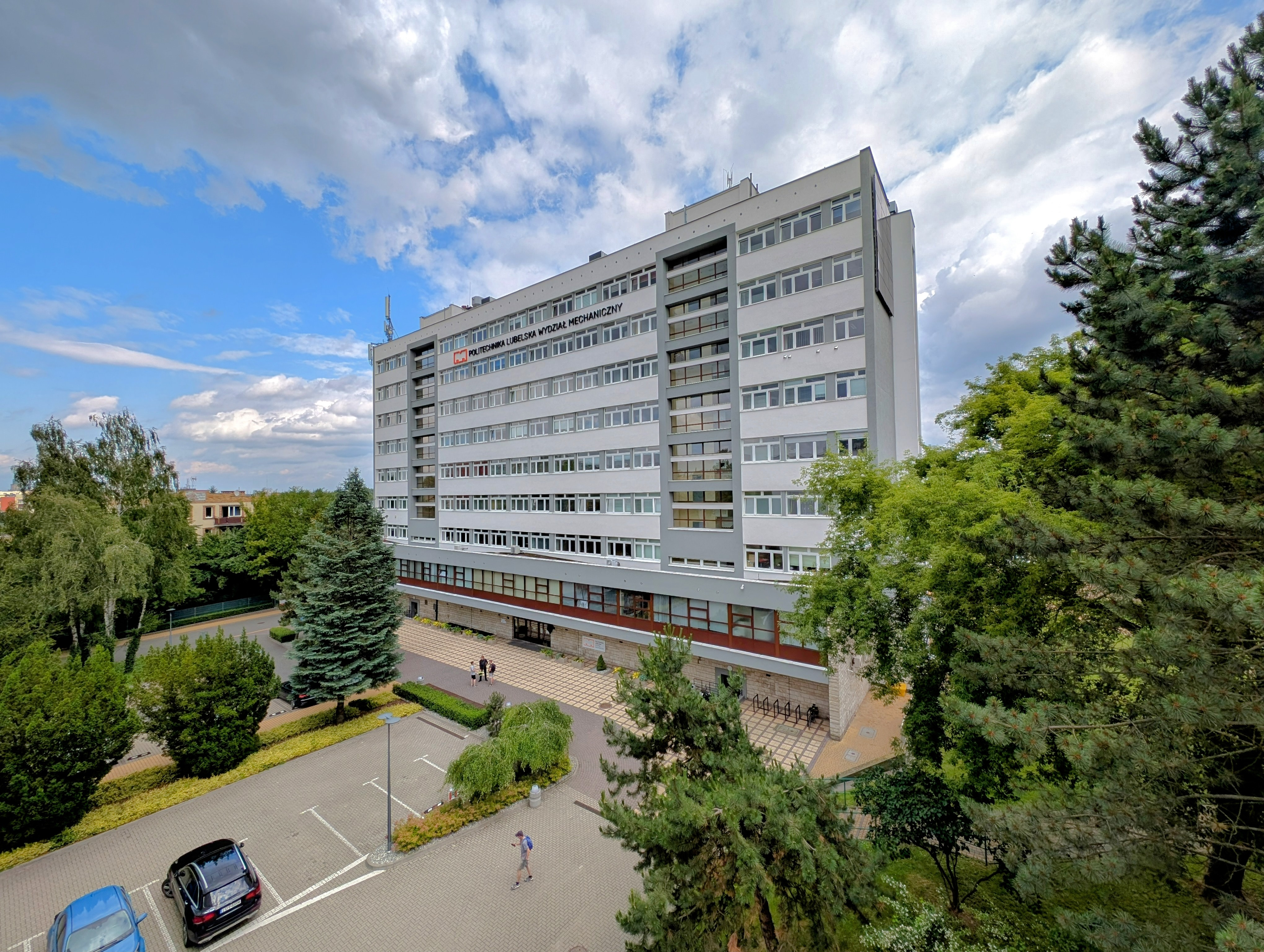 Lublin University of Technology, Mechanical Engineering Faculty